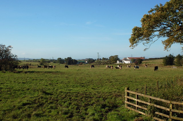 Balgray Mill Balgray Mill Farm in the right foreground, with Pokelly Hall among the trees to the left of the farm.